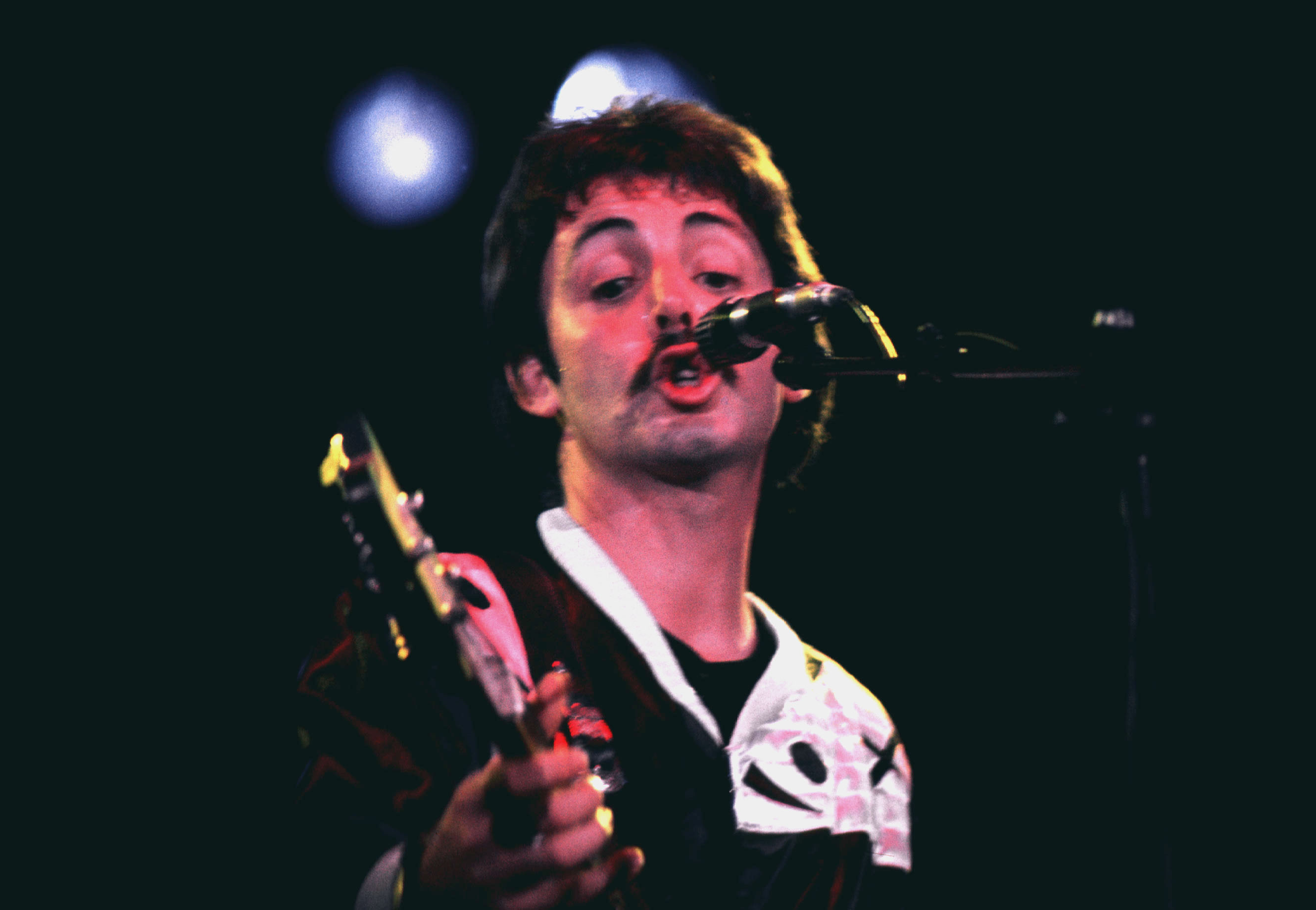 Paul McCartney on stage in Venice, Italy